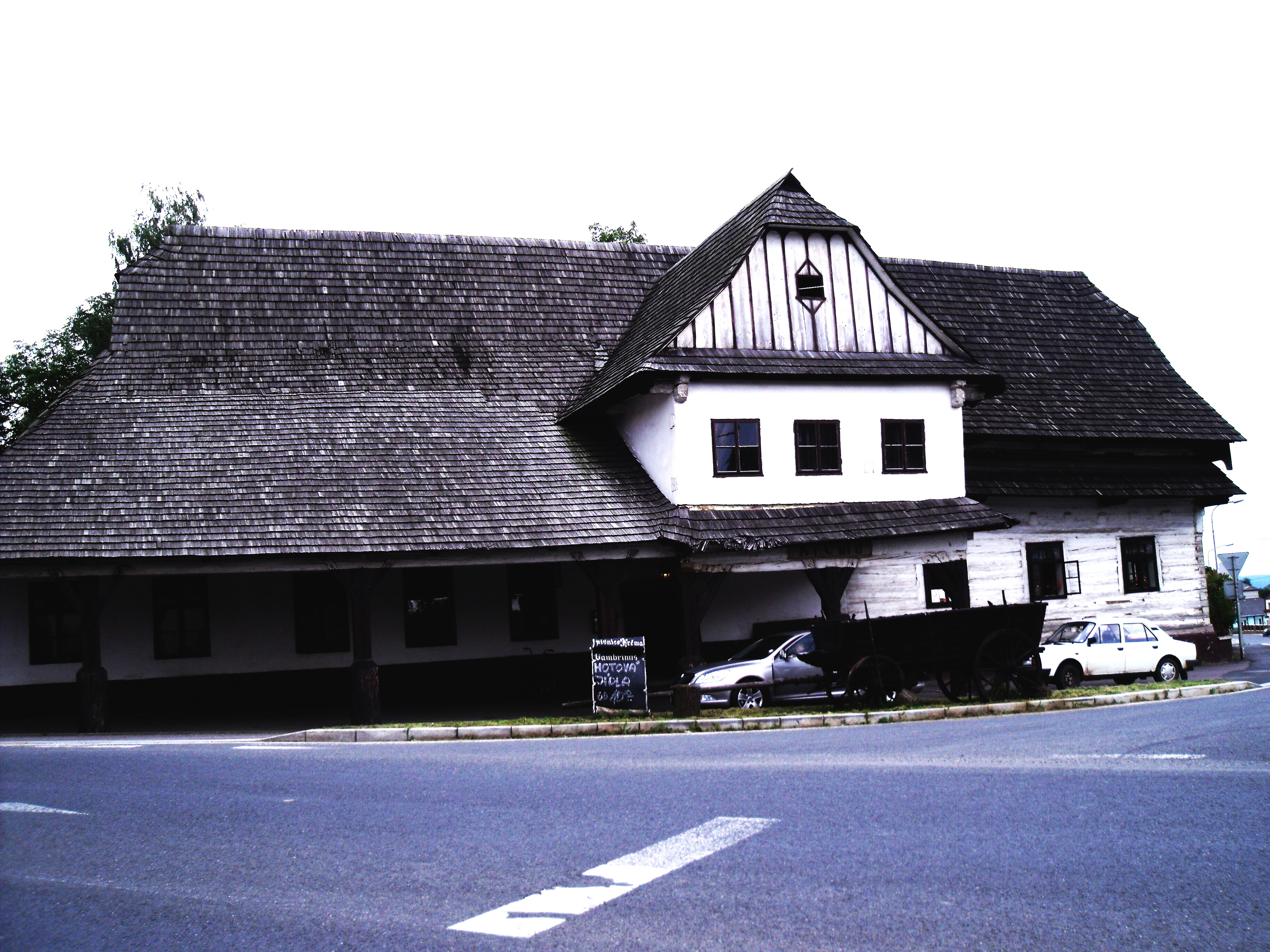 Lanškroun - coaching inn Krčma